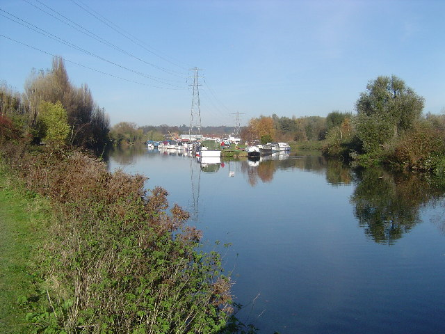 River Lee Navigation: Marina, Stanstead St. Margarets Viewed looking northwards from under the A414 road bridge, the channel to the left is the Navigation, the channel to the right is Stanstead Mill Stream.